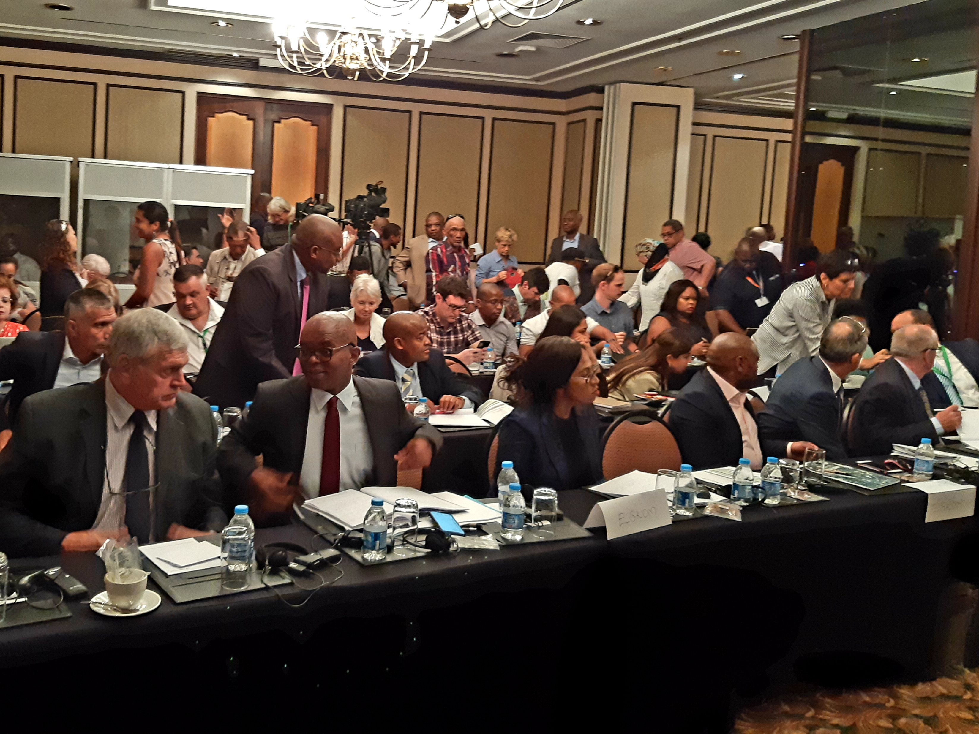 Eskom executives including Phakamani Hadebe (Group Chief Executive) at a public forum in Cape Town.